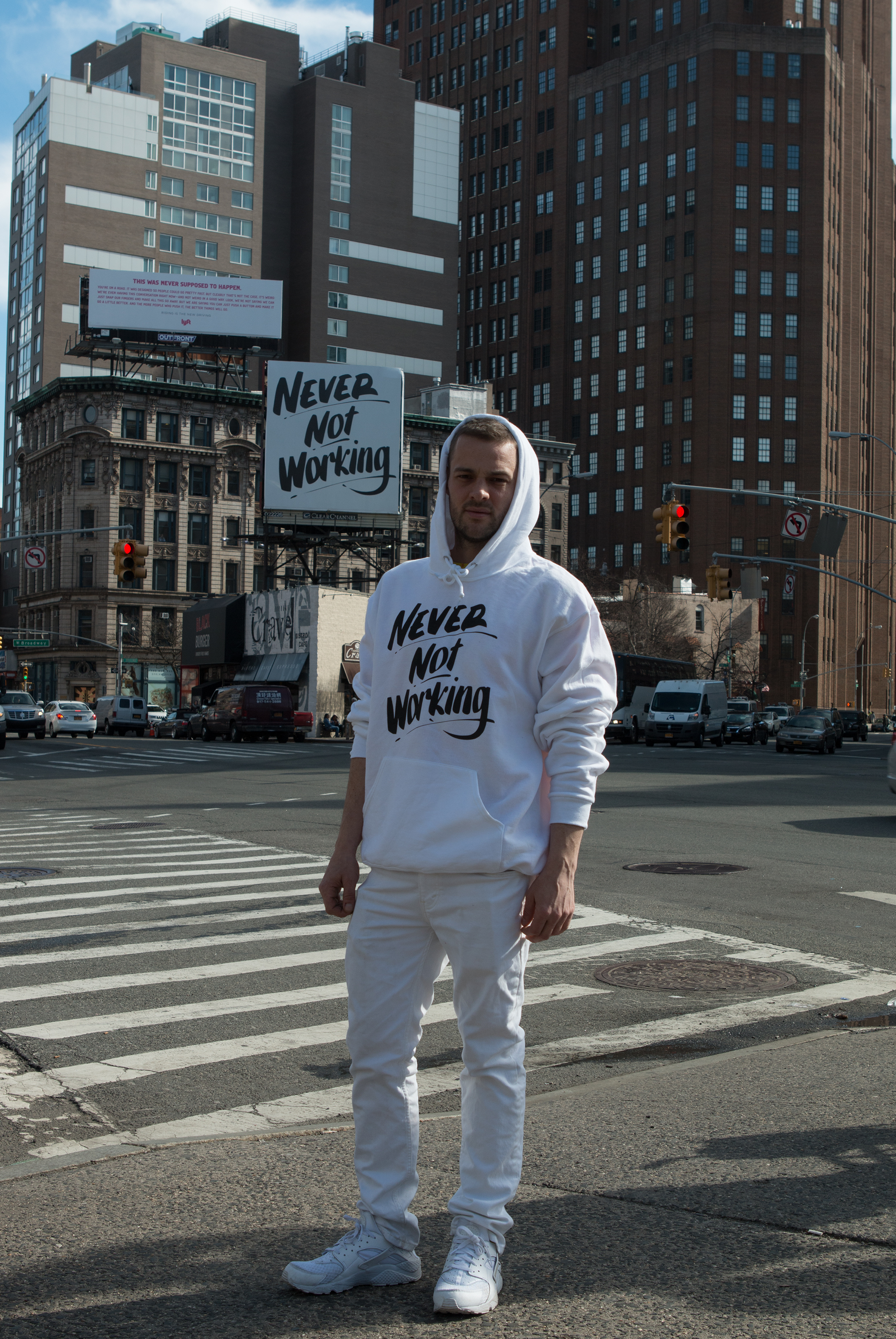 BVF wearing never not working hooded sweatshirt in front of Never Not Working billboard